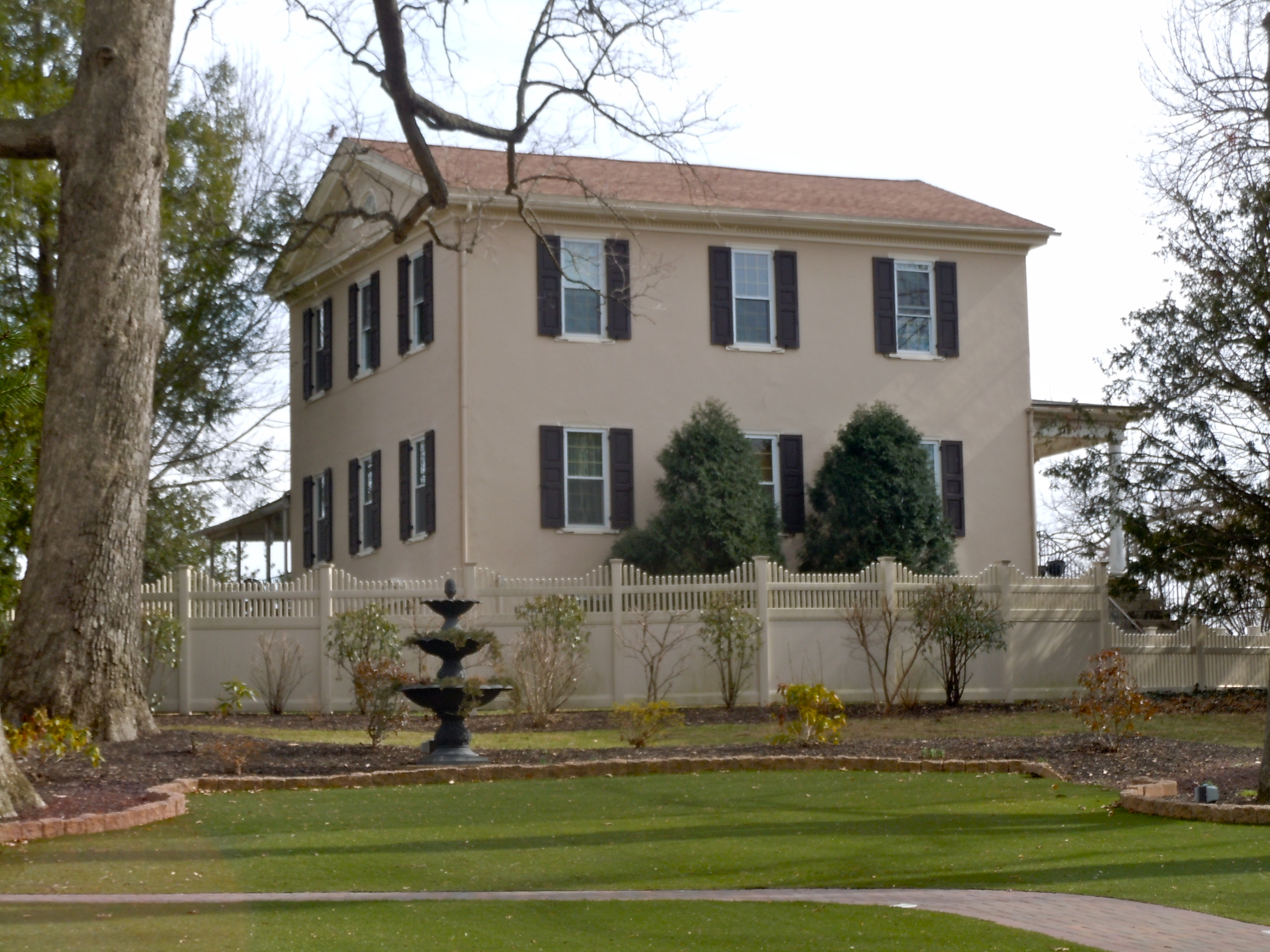 Stephen Meredith House on NRHP since April 29, 1993. Off Pennsylvania Route 100 (to the east) halfway between Bucktown and Pughtown. Access by driveway off 100 is better than by Bechtel Road, in South Coventry Township, Chester County, Pennsylvania.